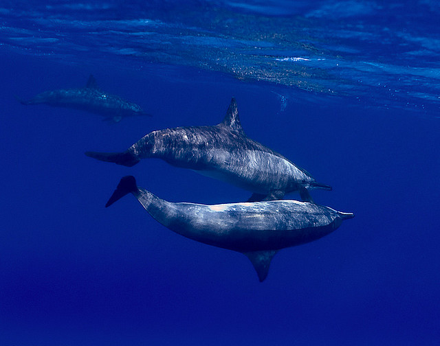 Spinner Dolphins at Ras Samadai